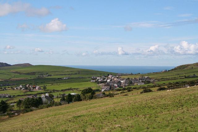 Pistyll: towards Llithfaen and Caernarfon Bay. View west-south-west from a footpath above the B4417 road, at SH367435